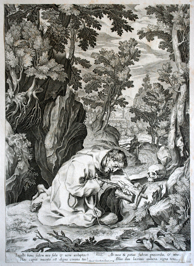 Villamena, Francisco (1566-ca 1624): Saint in the forest with a skull. Engraving. Signed: F. Villamena F. Romae, Apud Carolum Losi 1774.